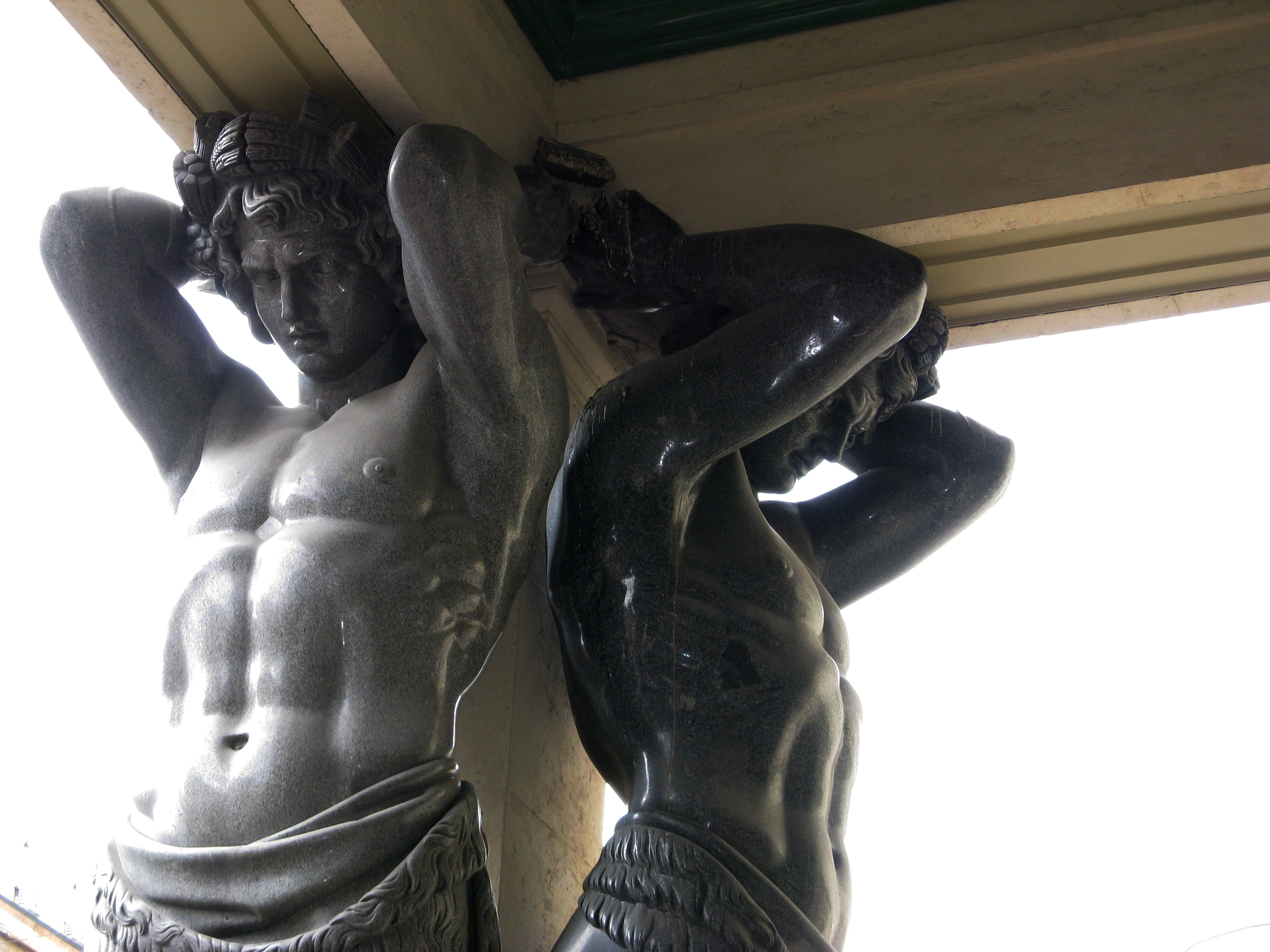 Atlantes cut out of grey granite after the models by sculptor Alexander Terebenev at the New Hermitage.